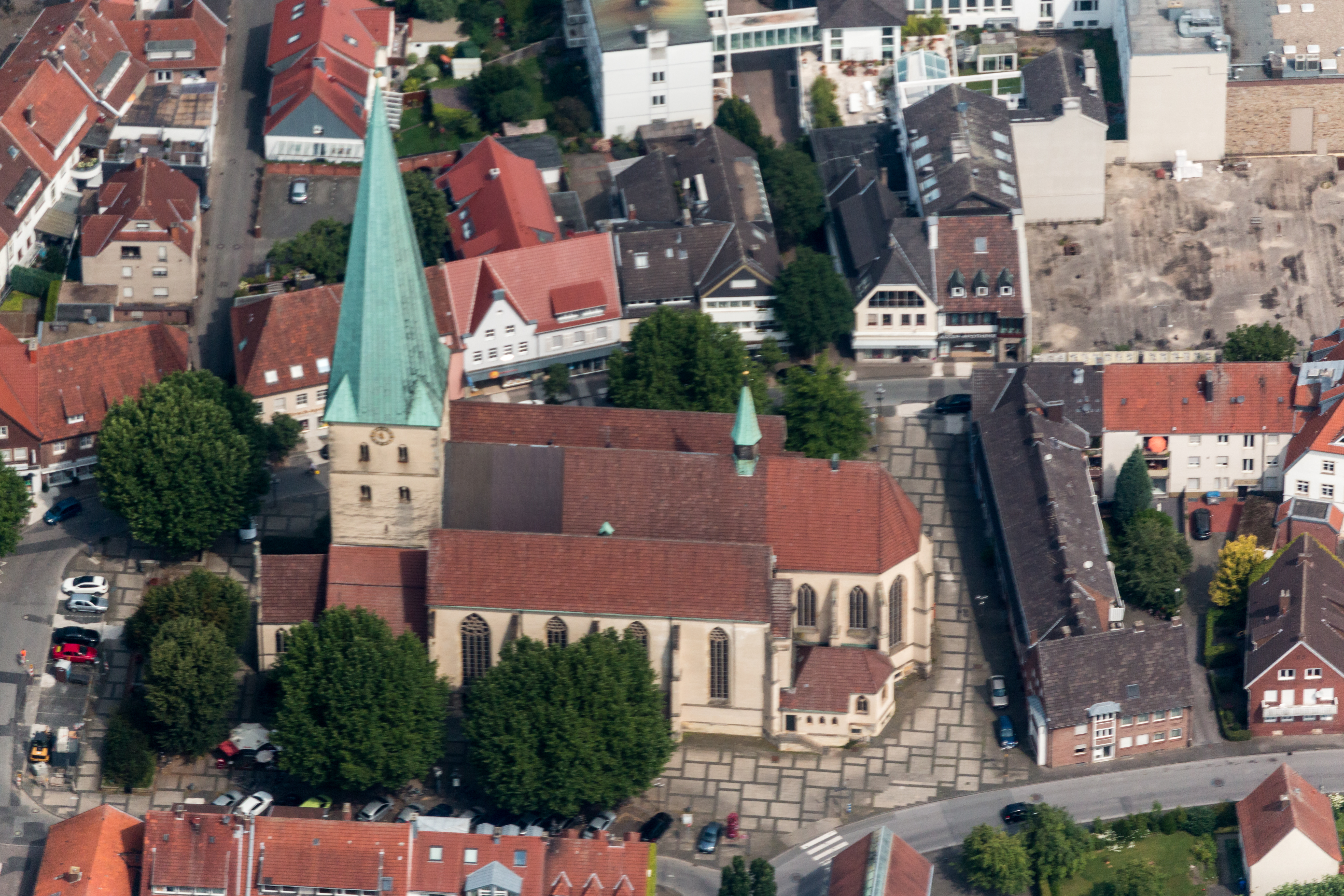 St. Remigius Church, Borken, North Rhine-Westphalia, Germany